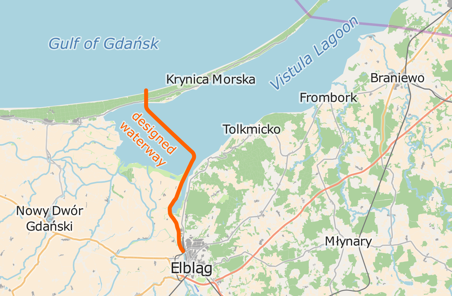 Map of a proposed waterway connecting Elbląg with Gdańsk Bay through Vistula Lagoon and Vistula Spit. Depicted is the Nowy Świat variant. Proposed waterway connecting Elbląg with Gdańsk Bay through Vistula Lagoon and Vistula SpitThis map of western part of Vistula Lagoon was created from OpenStreetMap project data, collected by the community. This map may be incomplete, and may contain errors. Don't rely solely on it for navigation.